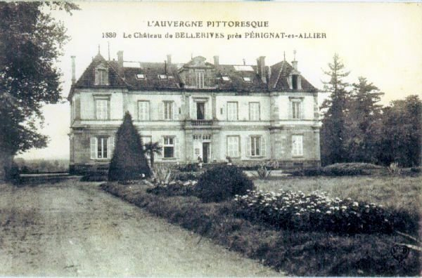 Chateau de Bellerive, Perignat on an old postcard